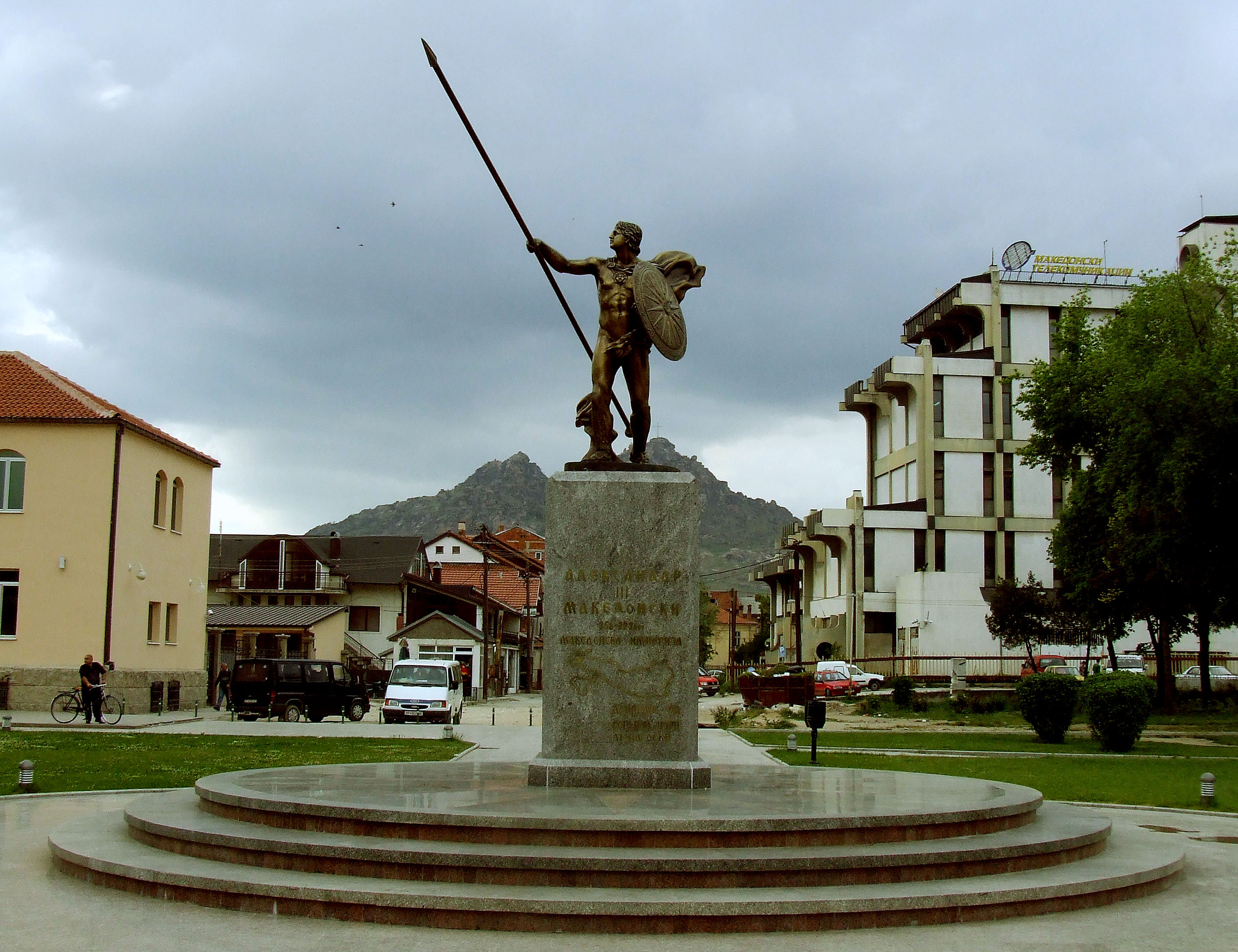 Monument of Alexander the Macedonian in centre of Prilep city, Macedonia